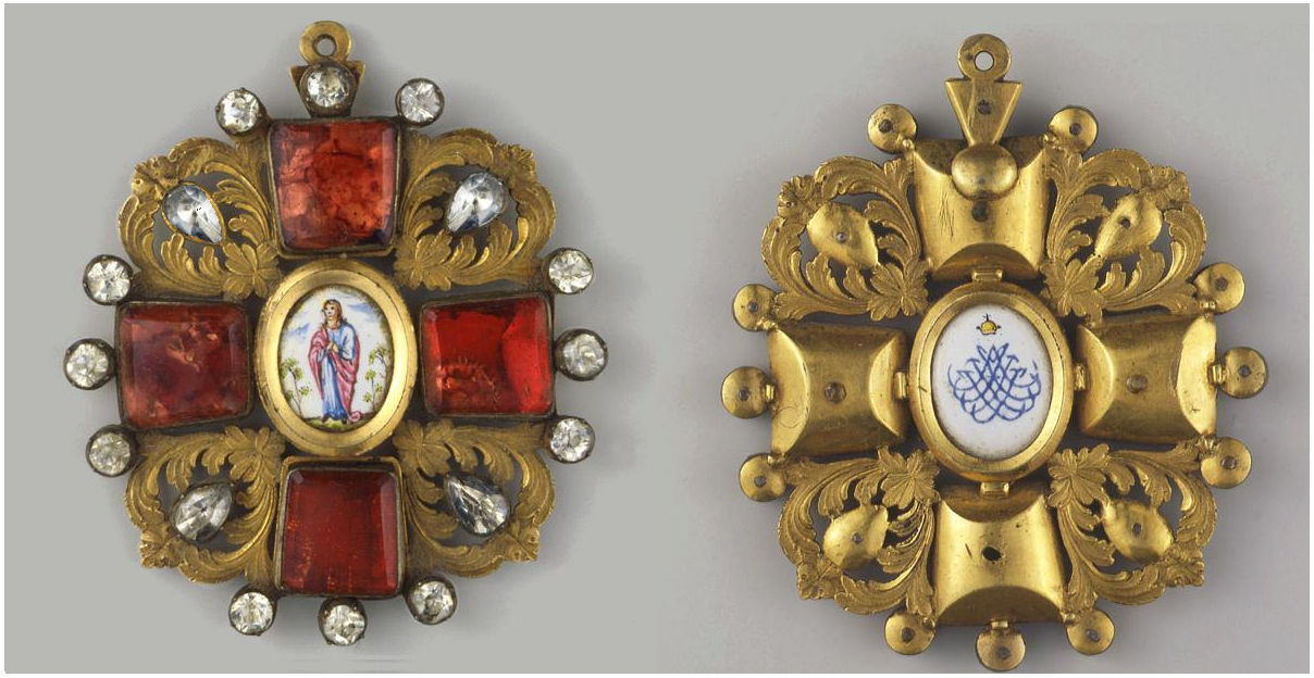 Order of Saint Anna with diamonds